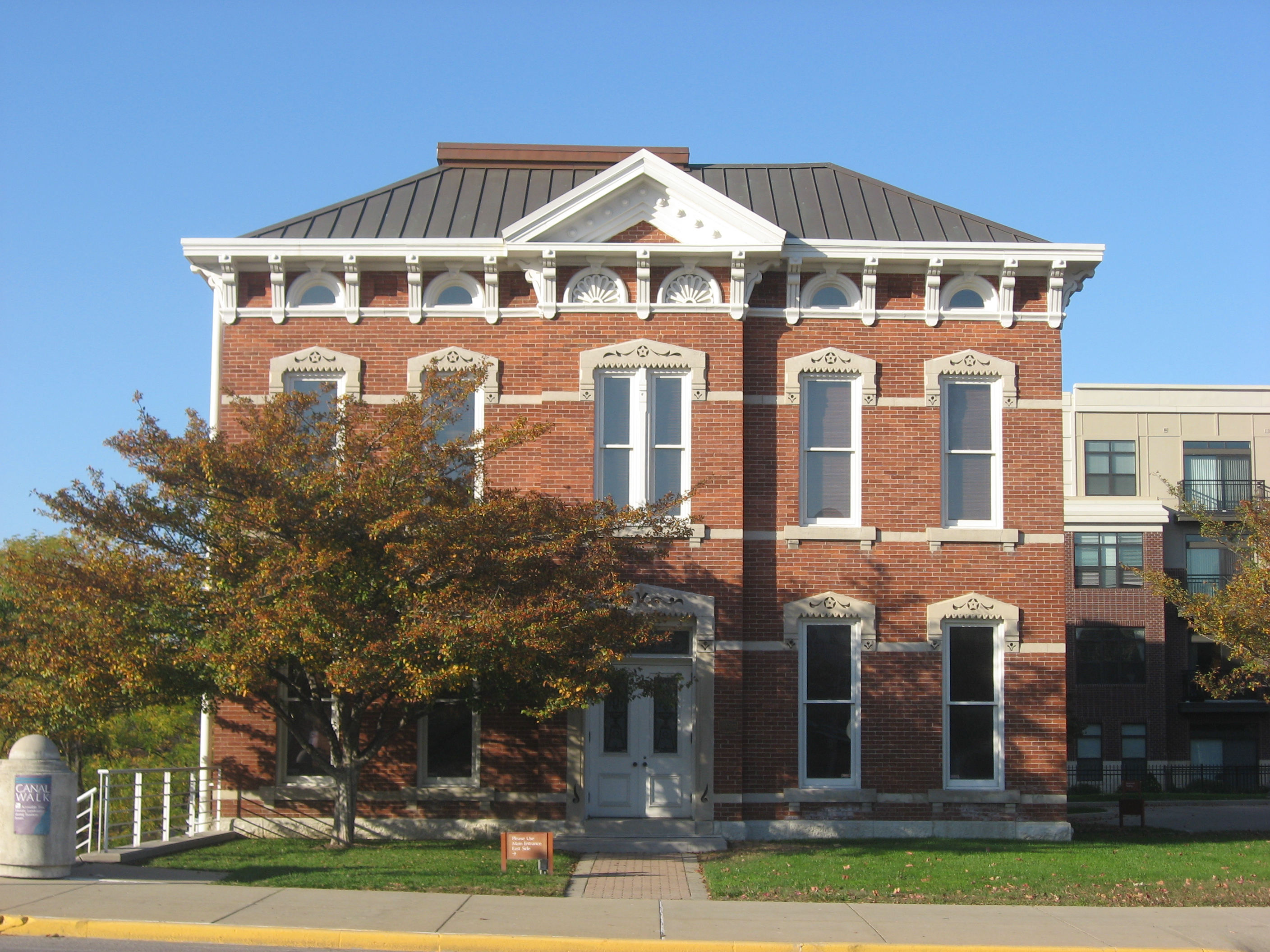 Front of the Charles Kuhn House, located at 340 W. Michigan Street in Indianapolis, Indiana, United States. Built in 1879, since converted into offices for the Historic Landmarks Foundation, and moved to its present location in the 1980s, it is listed on the National Register of Historic Places.